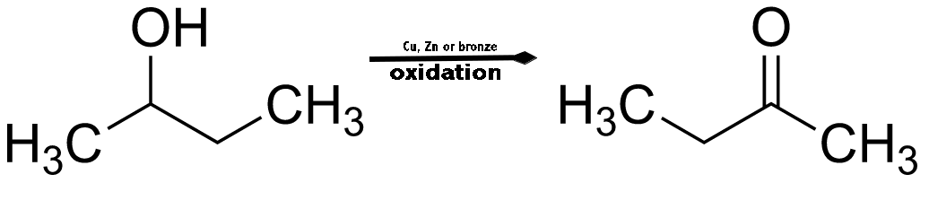 Butanone oxidation synthesis from 2-butanol